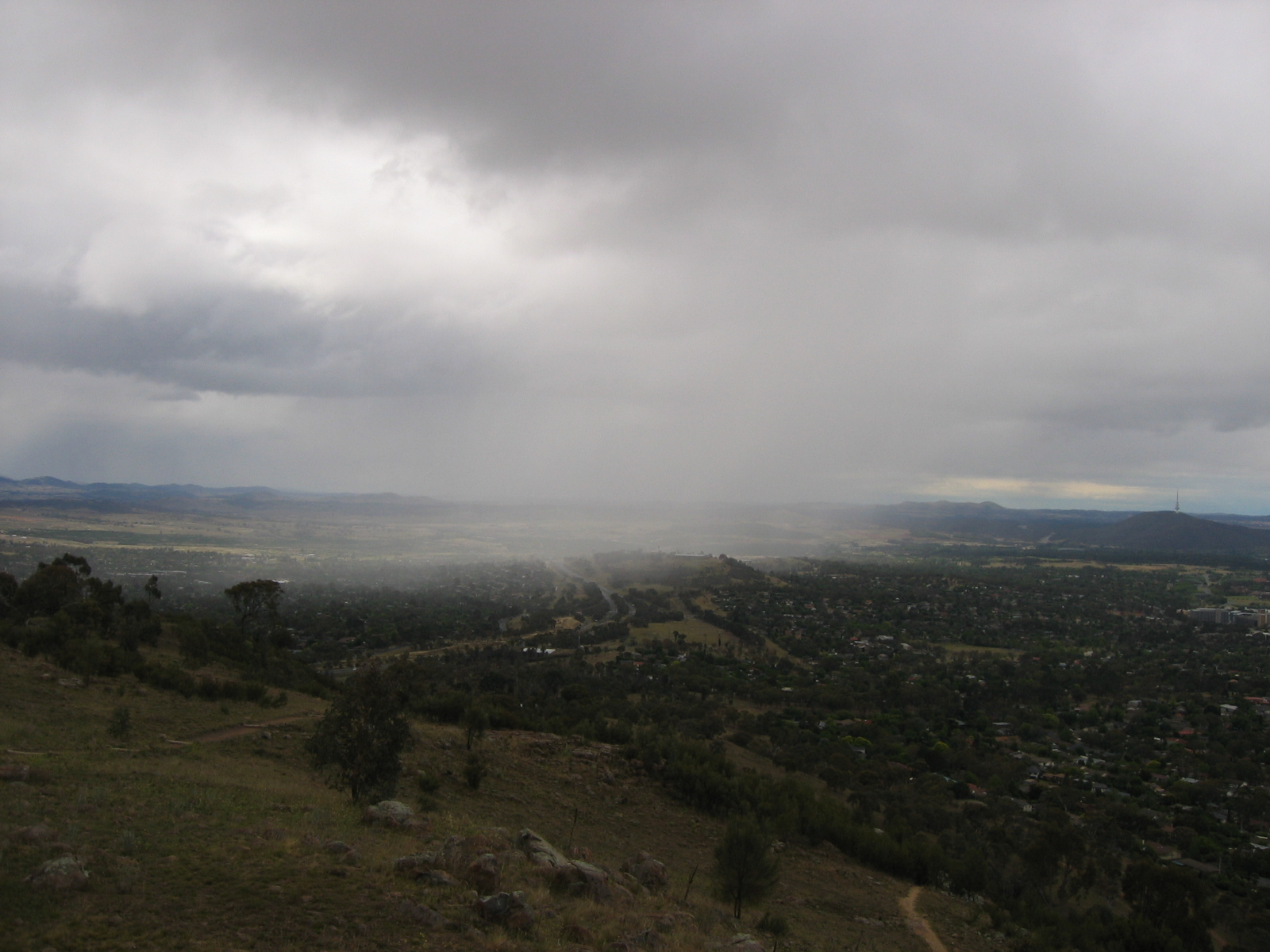 A rain shower racing across the Weston Creek area of Canberra, viewed from Mount Taylor.